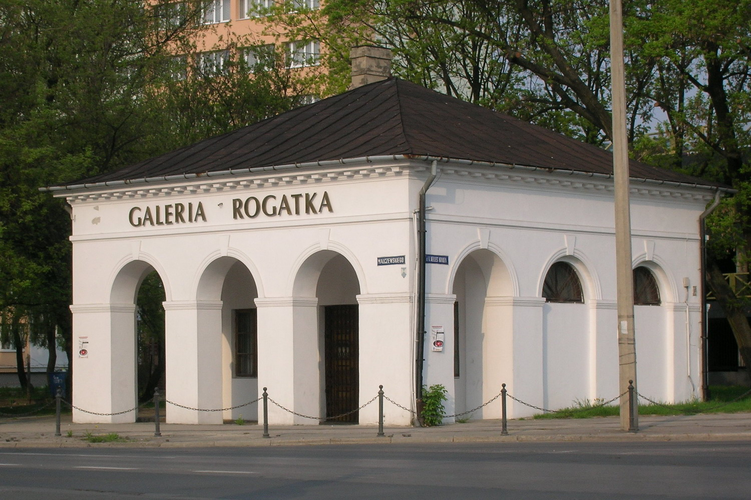 Radom - Rogatka warszawska. Now Gallery of Art.